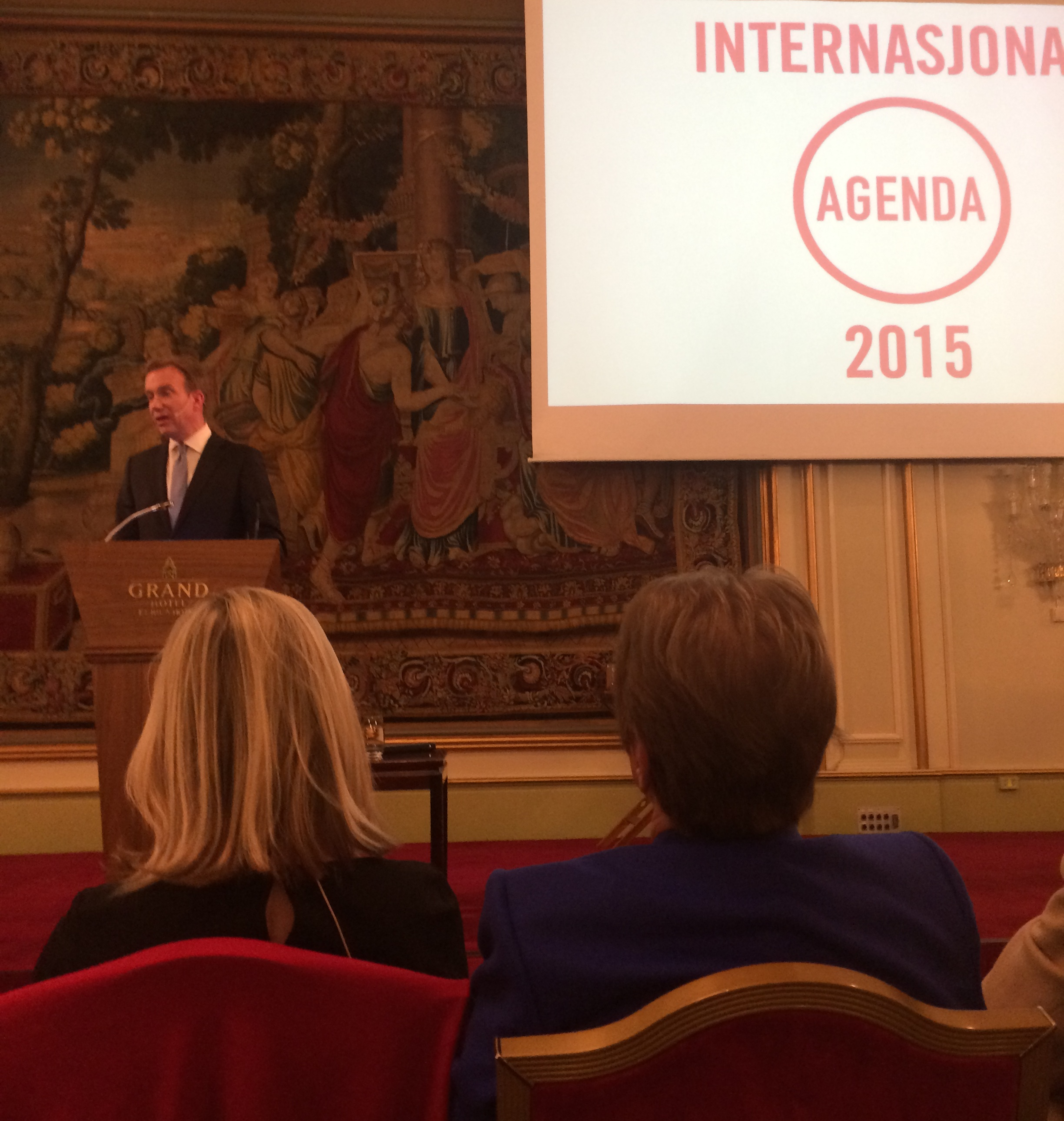 Meeting in the think tank "Agenda", Oslo, January 29, 2015. Foreign Minister Börge Brende speaks, while Agenda CEO Marte Gerhardsen and former PM Gro Harlem Brundtland listen in.